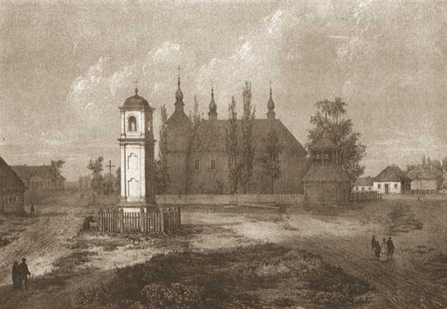 chapel at the place of Andrzej Bobola death